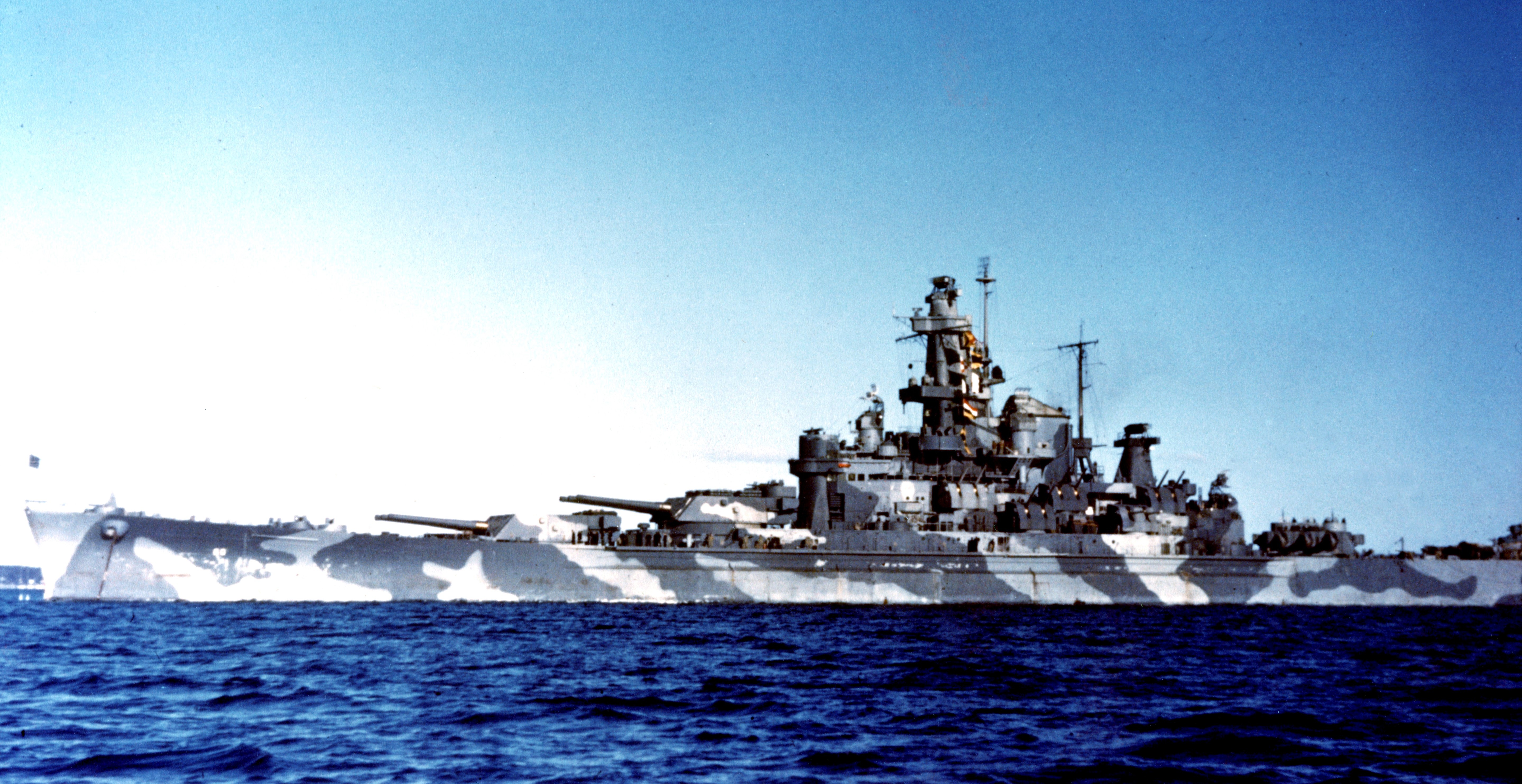 The U.S. Navy battleship USS Alabama (BB-60) In Casco Bay, Maine, during her shakedown period, circa December 1942. Note her Measure 12 (modified) camouflage scheme.